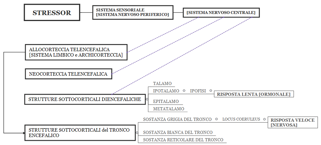 Stress